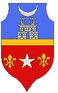 Arms of d'Ongran, granted in 1824